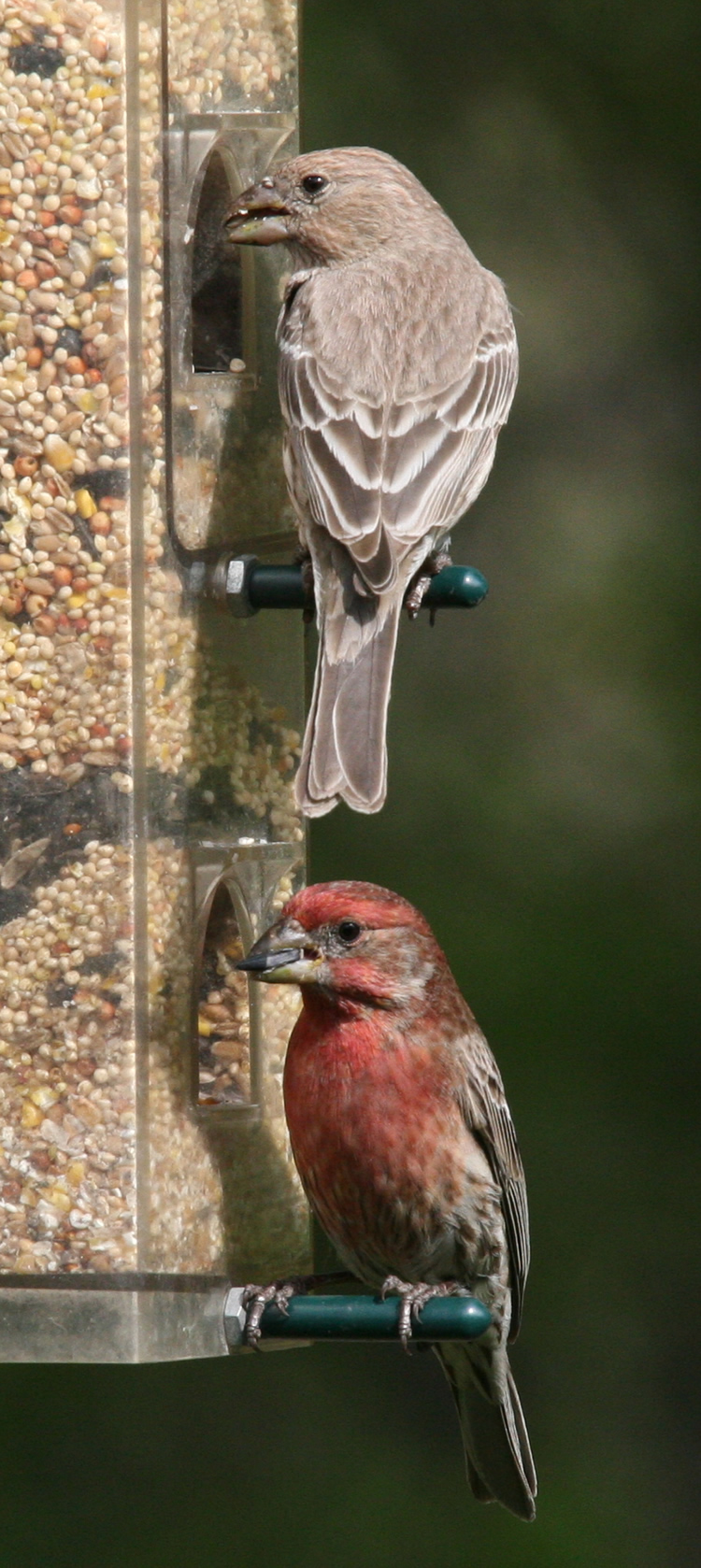 Male and Female House Finch in Kingston, Ontario, Canada